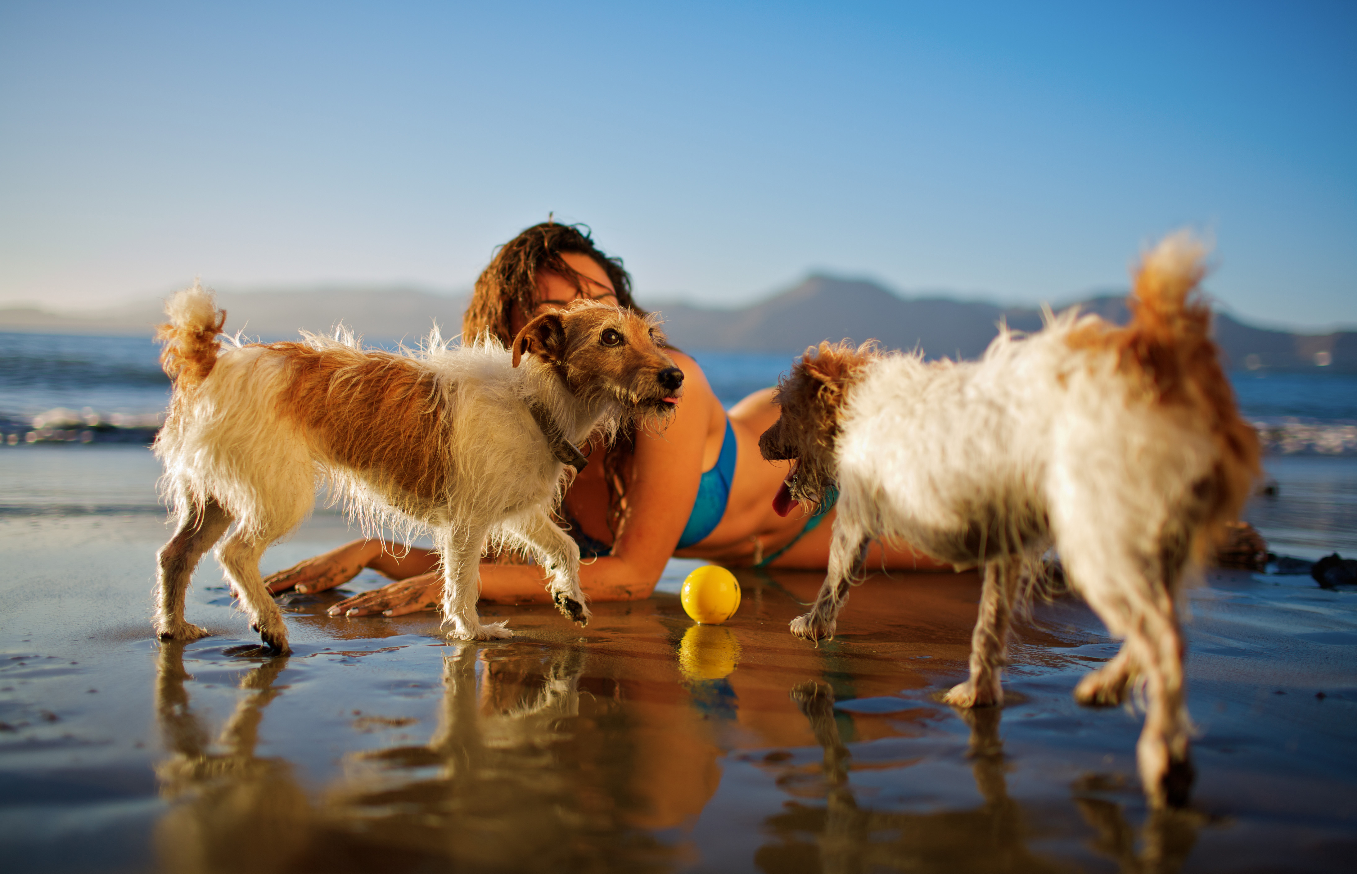 Singer Jackie Martinez. The ball seemed to conveniently and consistently land in the middle of our photoshoot.